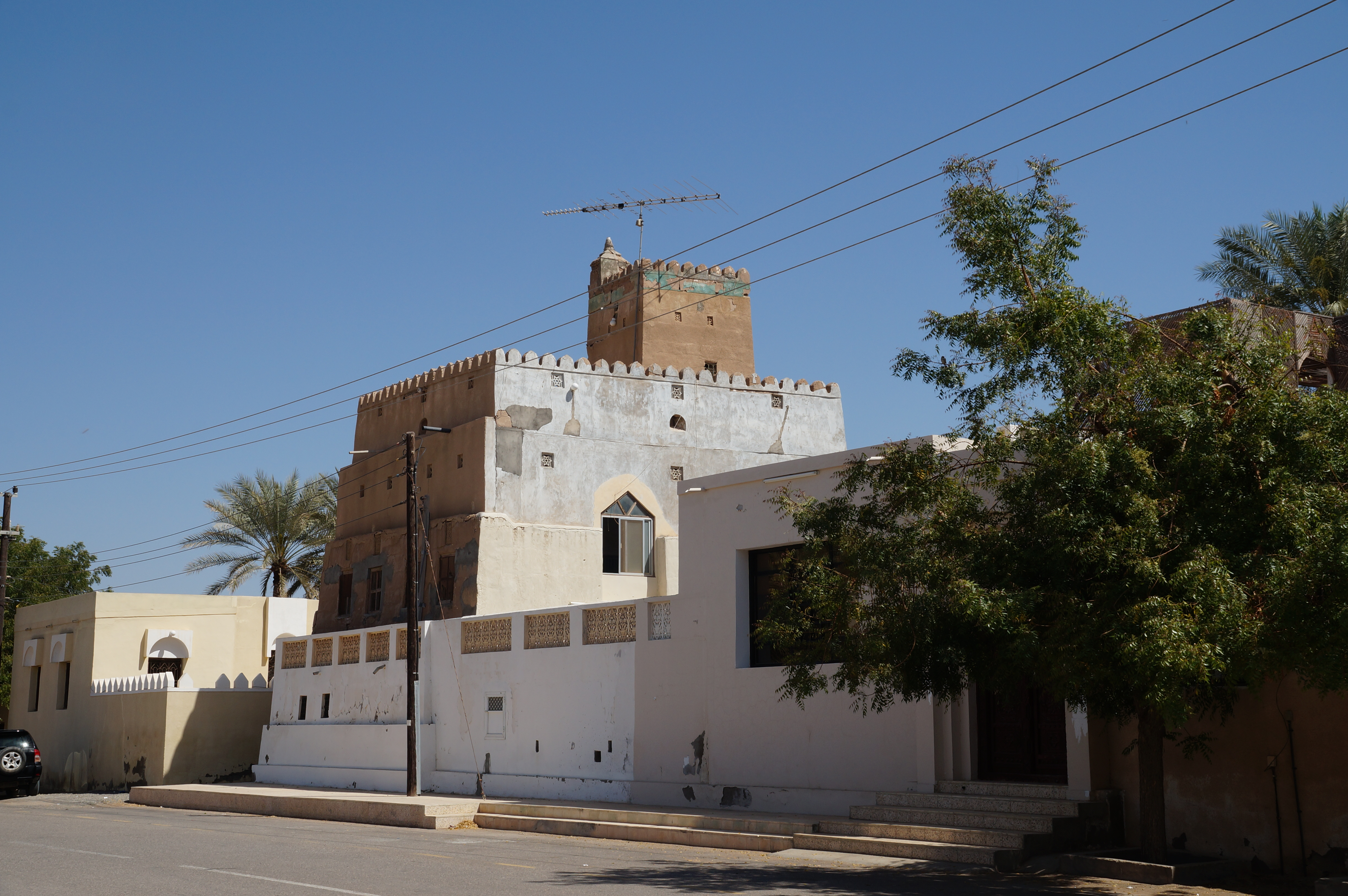 Fort of al-Mintirib